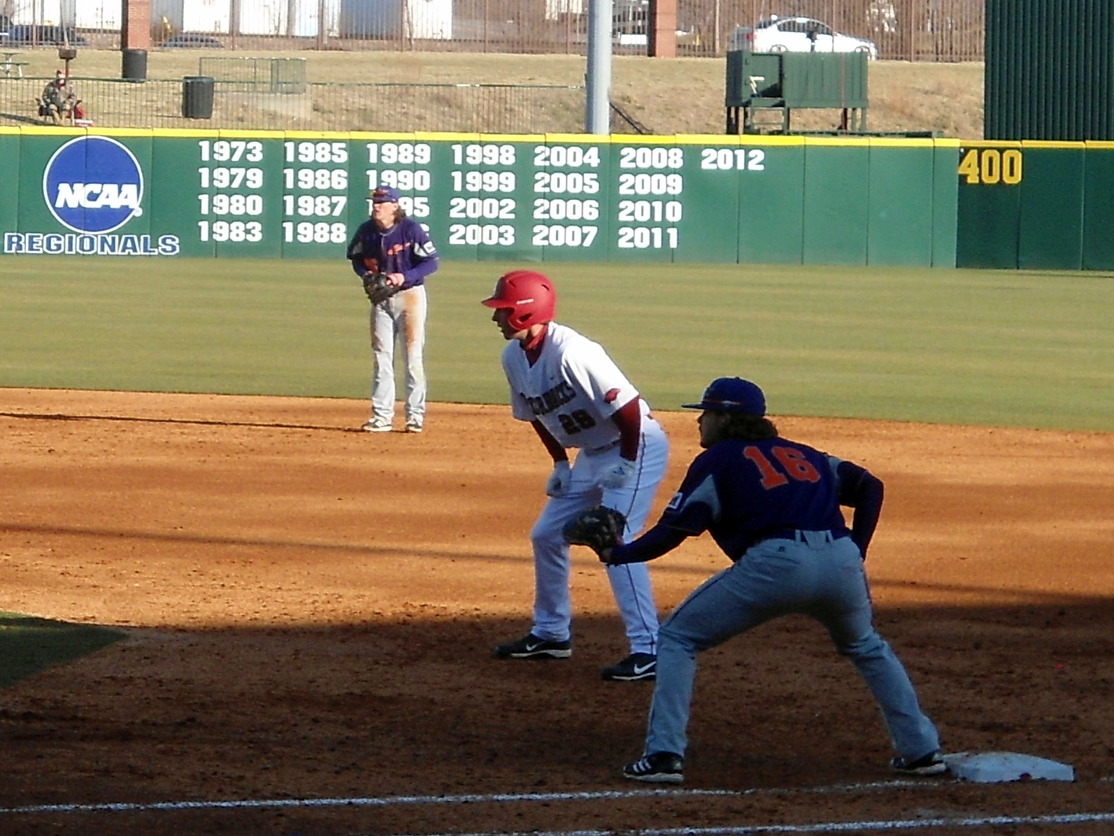 Eric Fisher leads off first base for the Arkansas Razorbacks baseball team vs the Evansville Purple Aces in Baum Stadium, Fayetteville, Arkansas